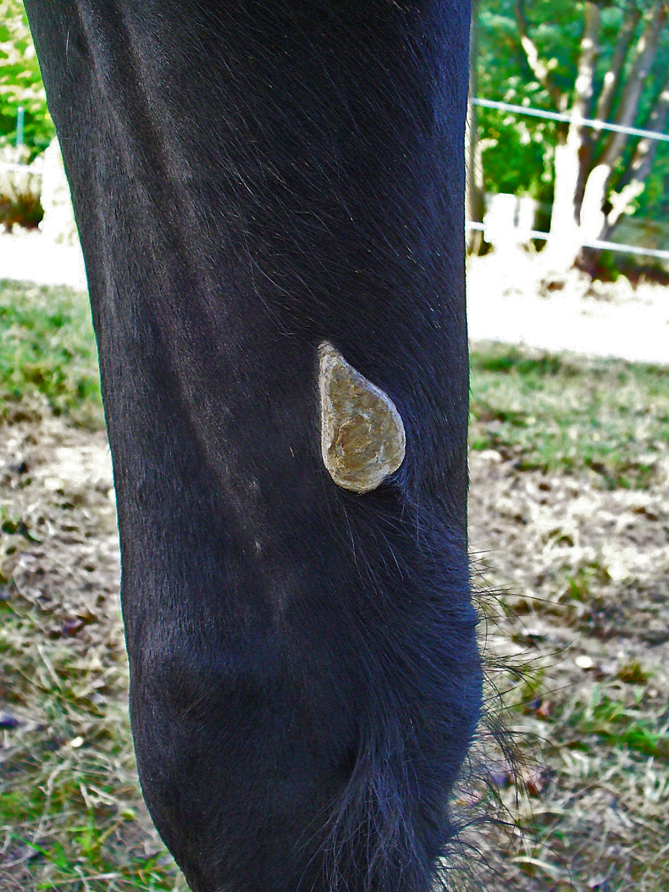 Equus ferus caballus, Equidae, Friesian Horse, “chestnut”; Karlsruhe, Germany. The “chestnut” is used in homeopathy as remedy: Castor equi (Cast-equ.)